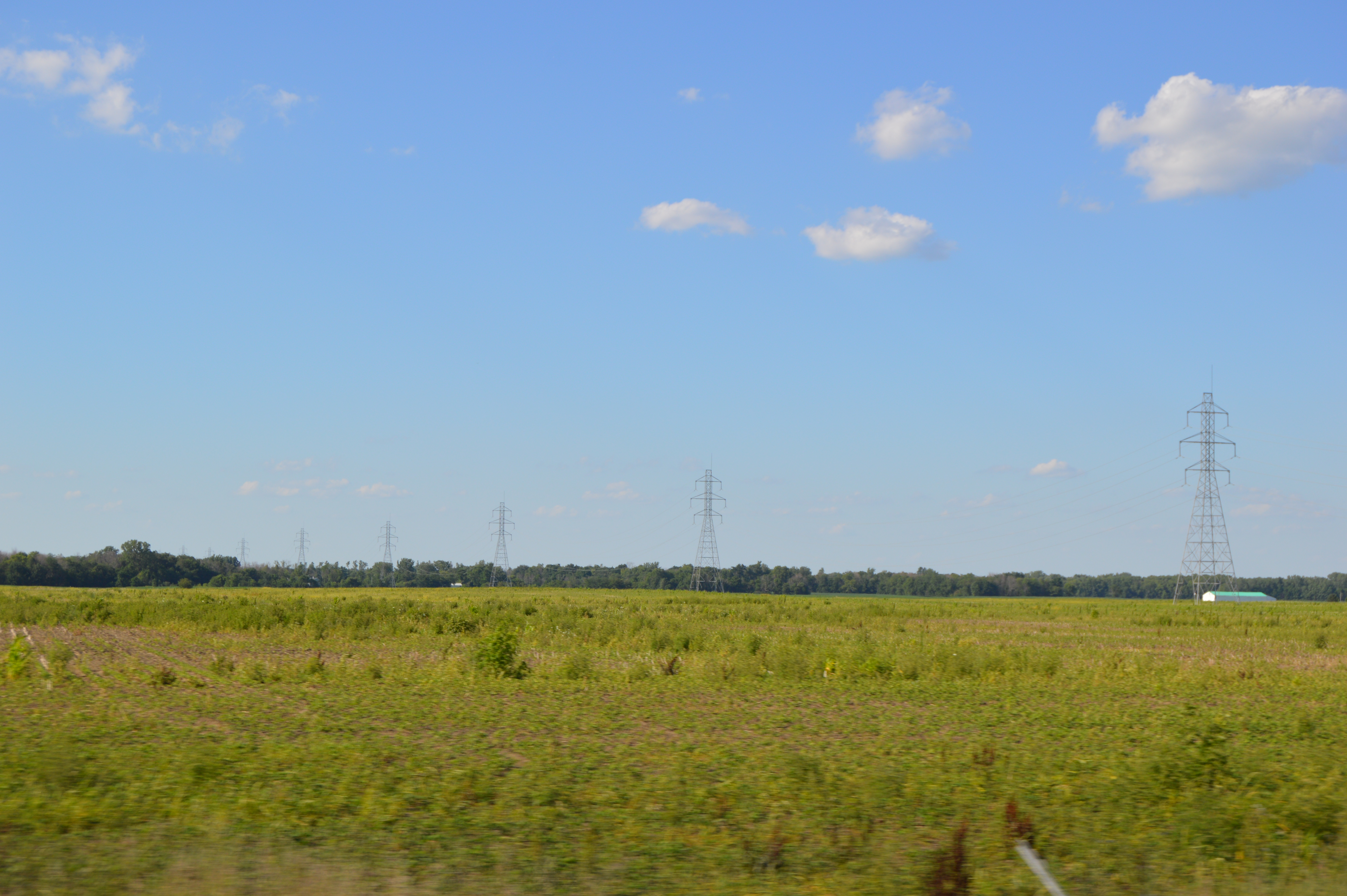 Looking northeast from State Road 18 over fields west of Montpelier in Harrison Township, Blackford County, Indiana, United States.